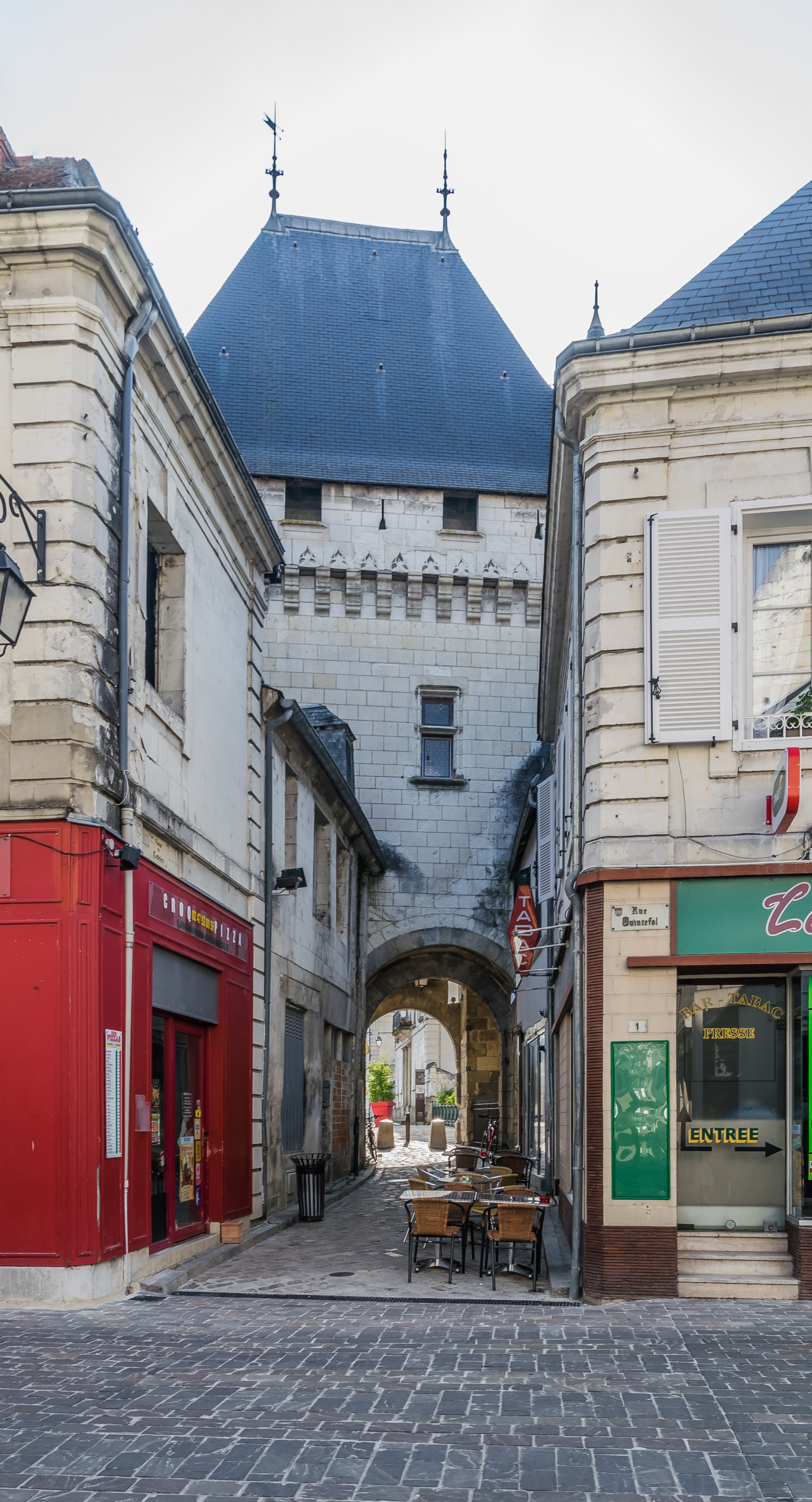 Porte des Cordeliers in Loches, Indre-et-Loire, France .